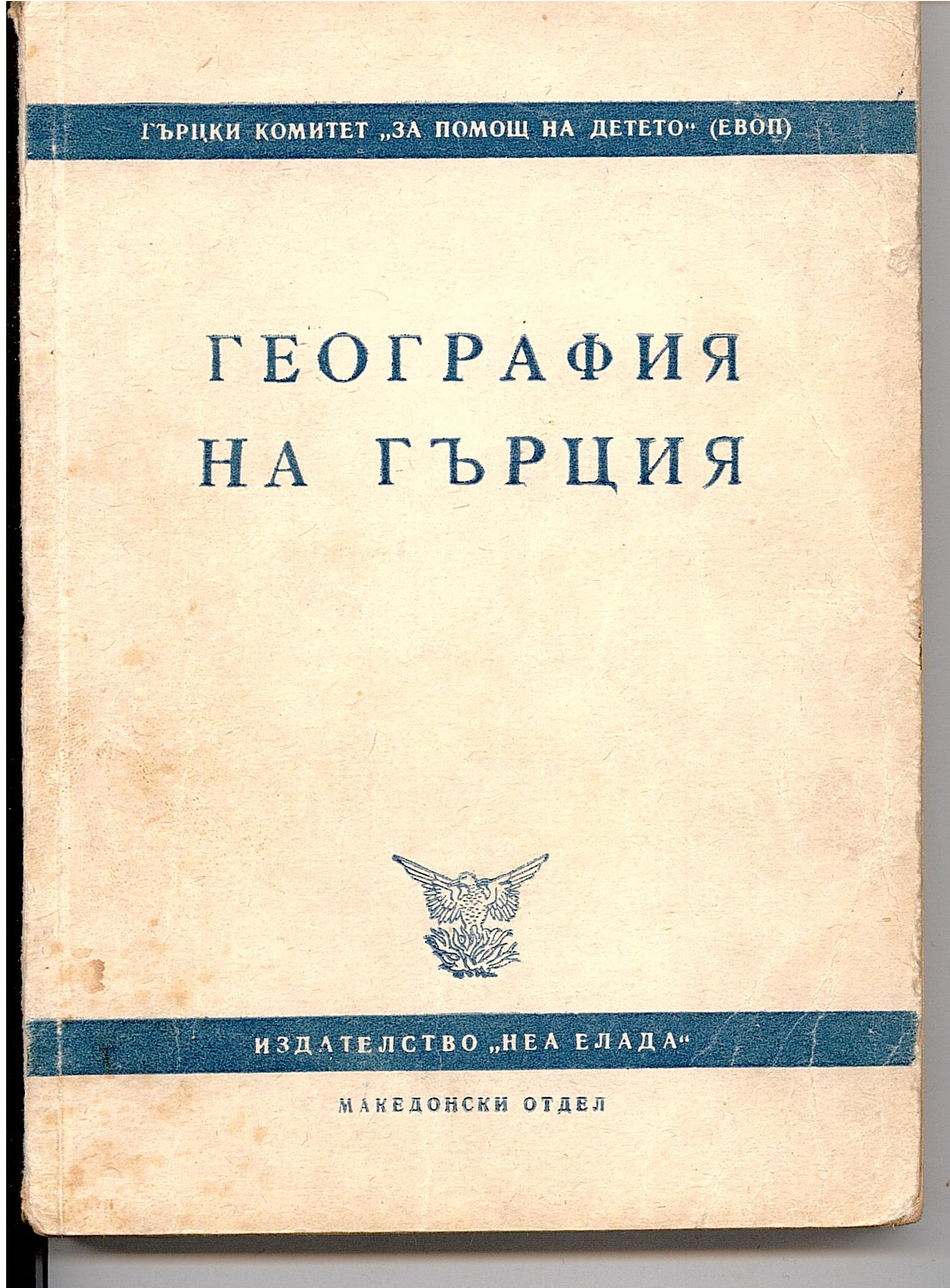 Geografiya na Gurtsiya, Nea Ellada, Stavro Kochev et al